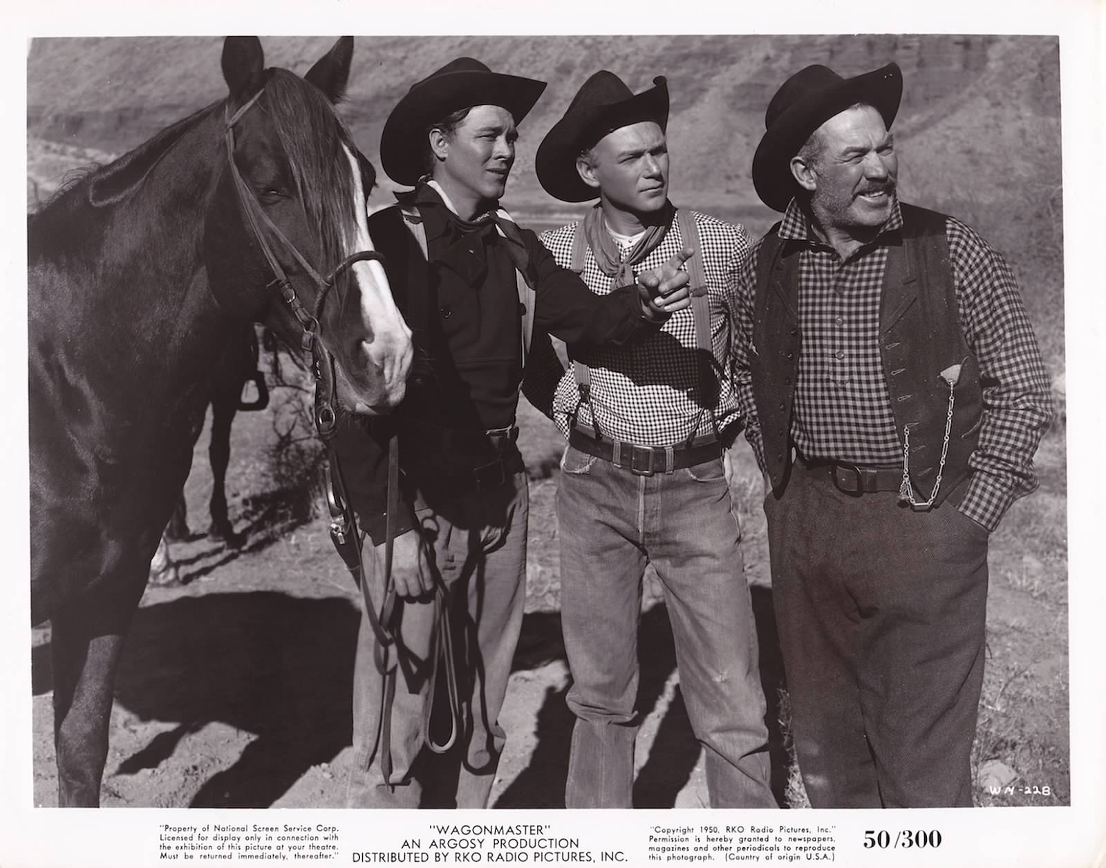 Publicity photo for the film Wagon Master (1950) showing three of its stars. From left to right: Ben Johnson, Harry Carey, Jr., and Ward Bond.